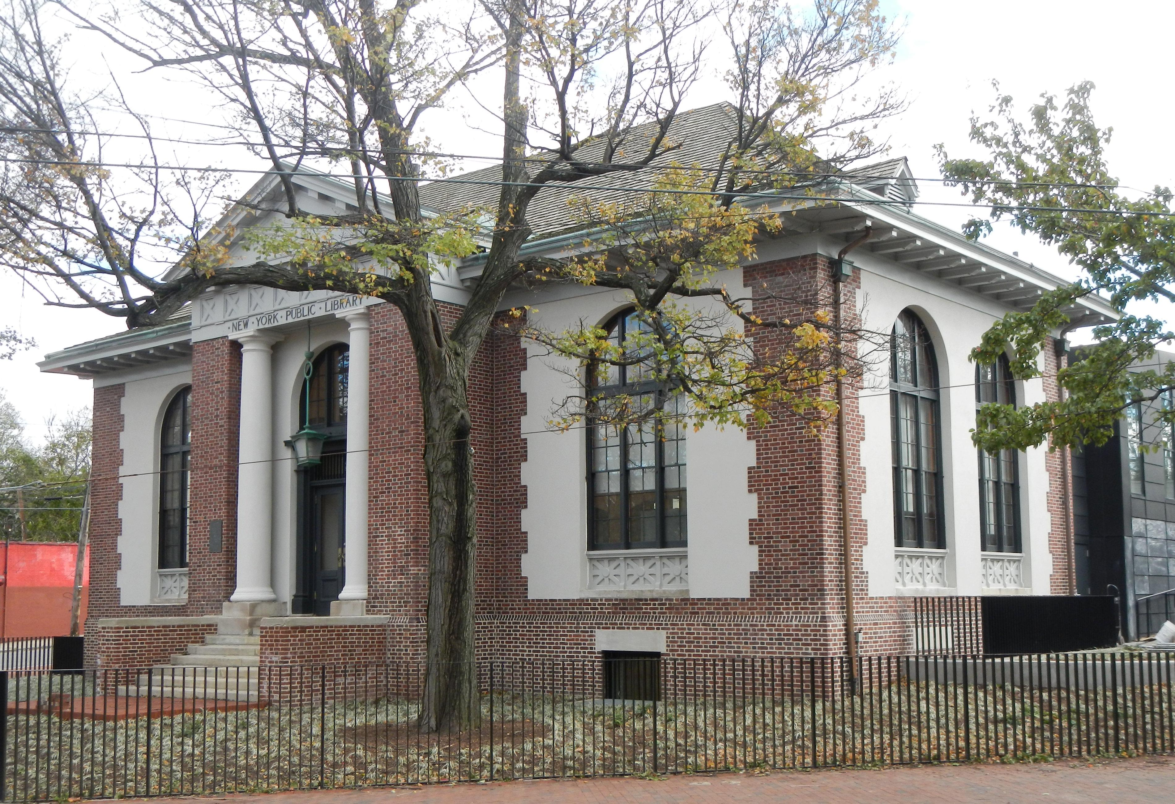 Looking southeast at library in Stapleton on a cloudy midday. ZIP 10304.